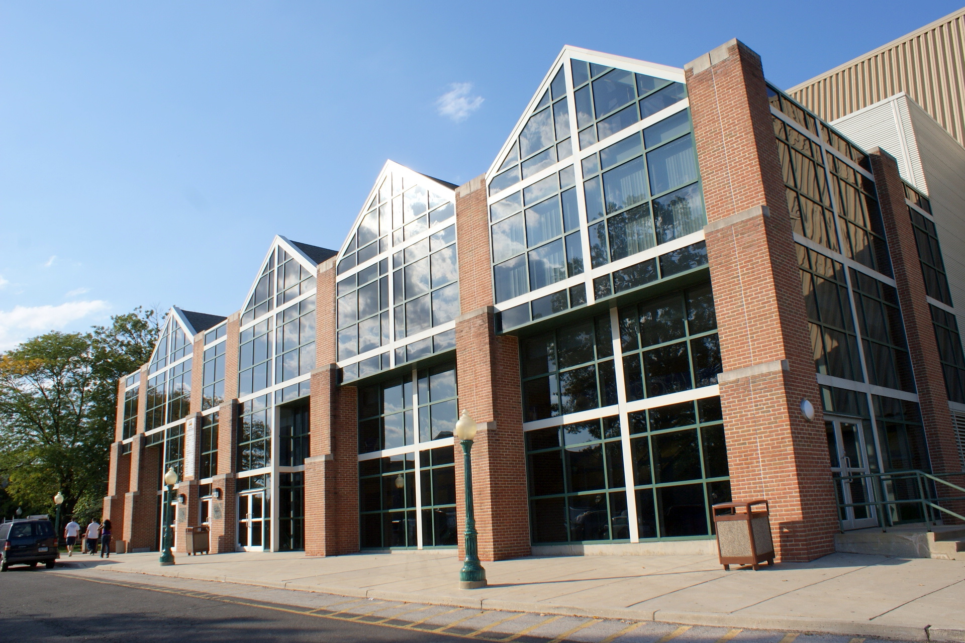 Tom Gola Arena at La Salle University, 1900 W. Olney Ave